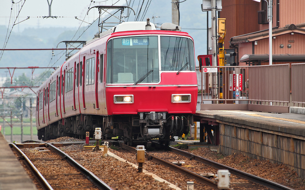 Meitetsu 5700 series EMU ( at Haba Stn. ).